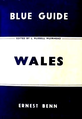 Blue Guide to Wales.